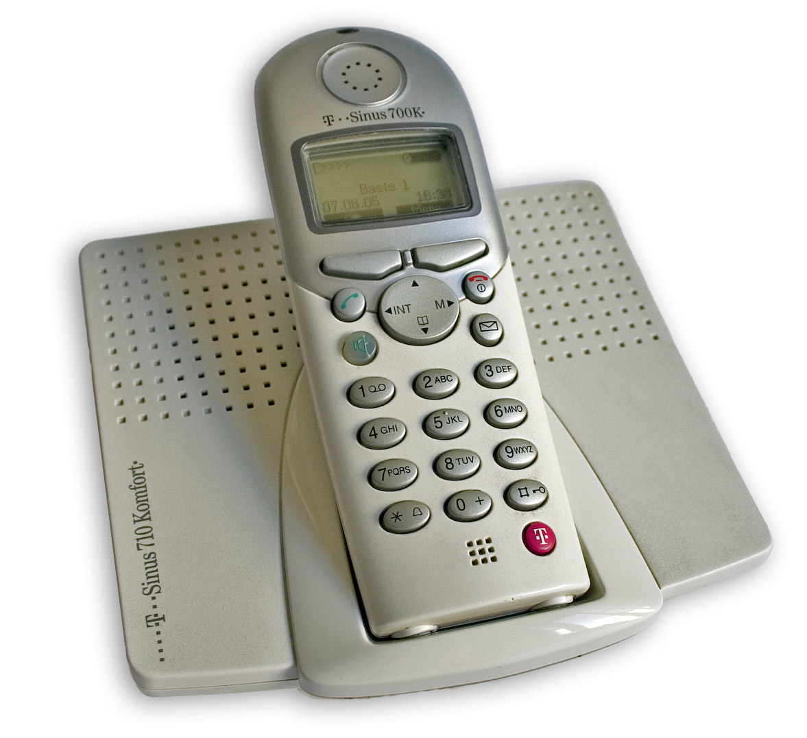 Schnurlos-Telefon Telekom T-sinus 700k, Foto: Canon EOS 300D